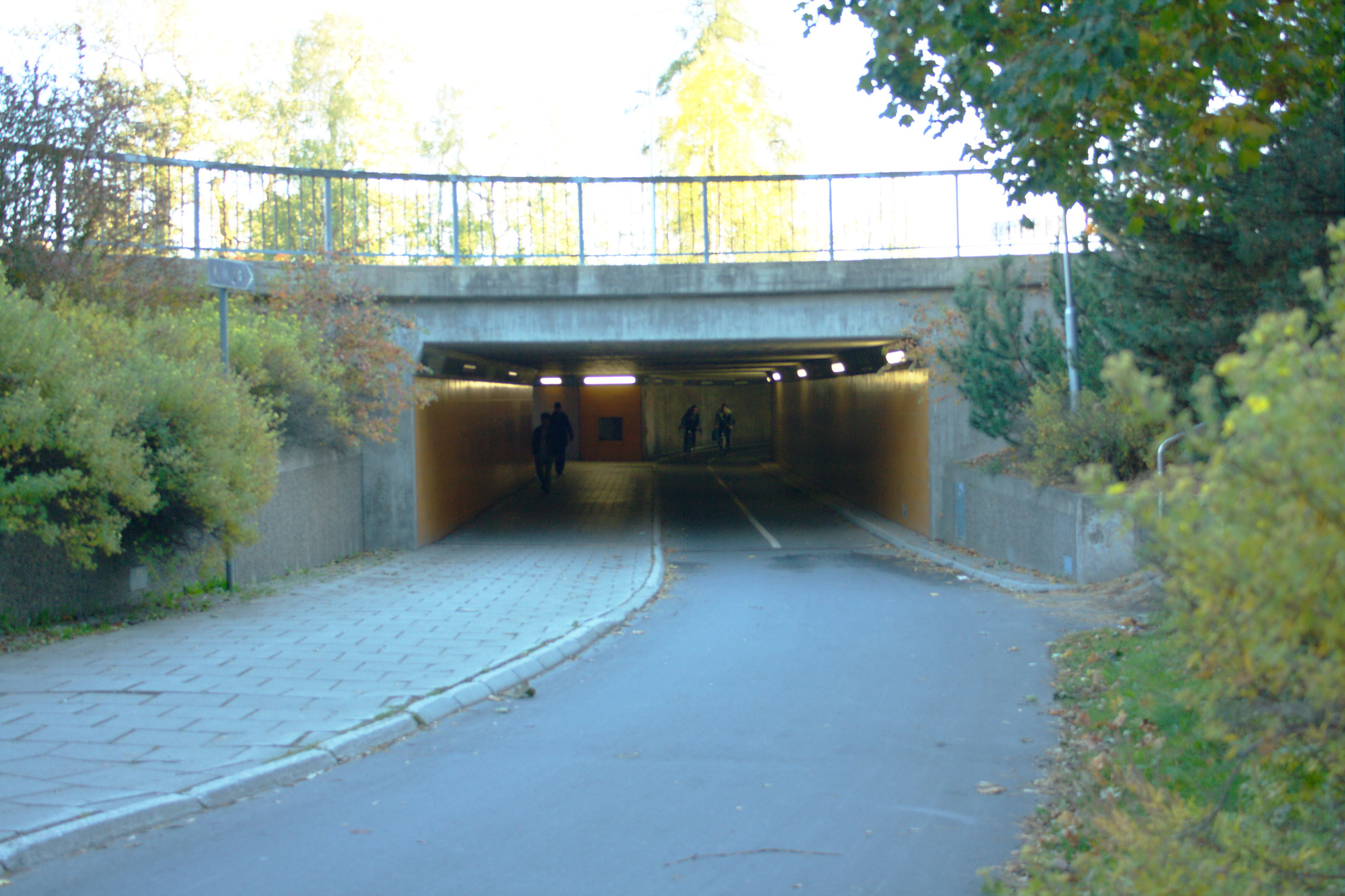 Tunnel entrance towards Vänortsparken at Kyrkbron abutment.